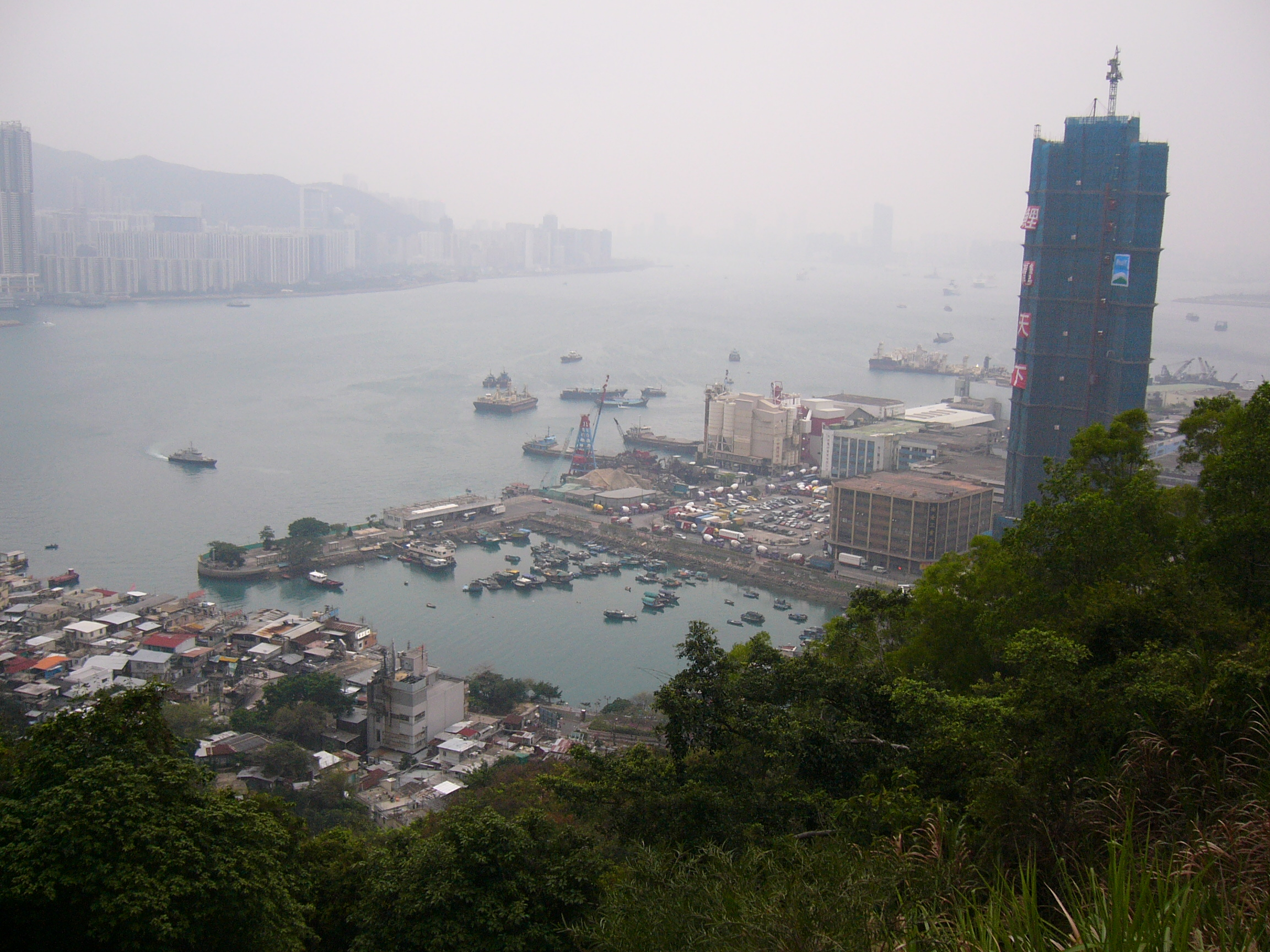 Shoreline of Yau Tong and Lei Yue Mun, Hong Kong. Photo taken by Deryck Chan, Hong Kong (deryckchan [at] gmail [dot] com) Please cite as above when this image is used outside Wikipedia. Image:Yau Tong.jpg